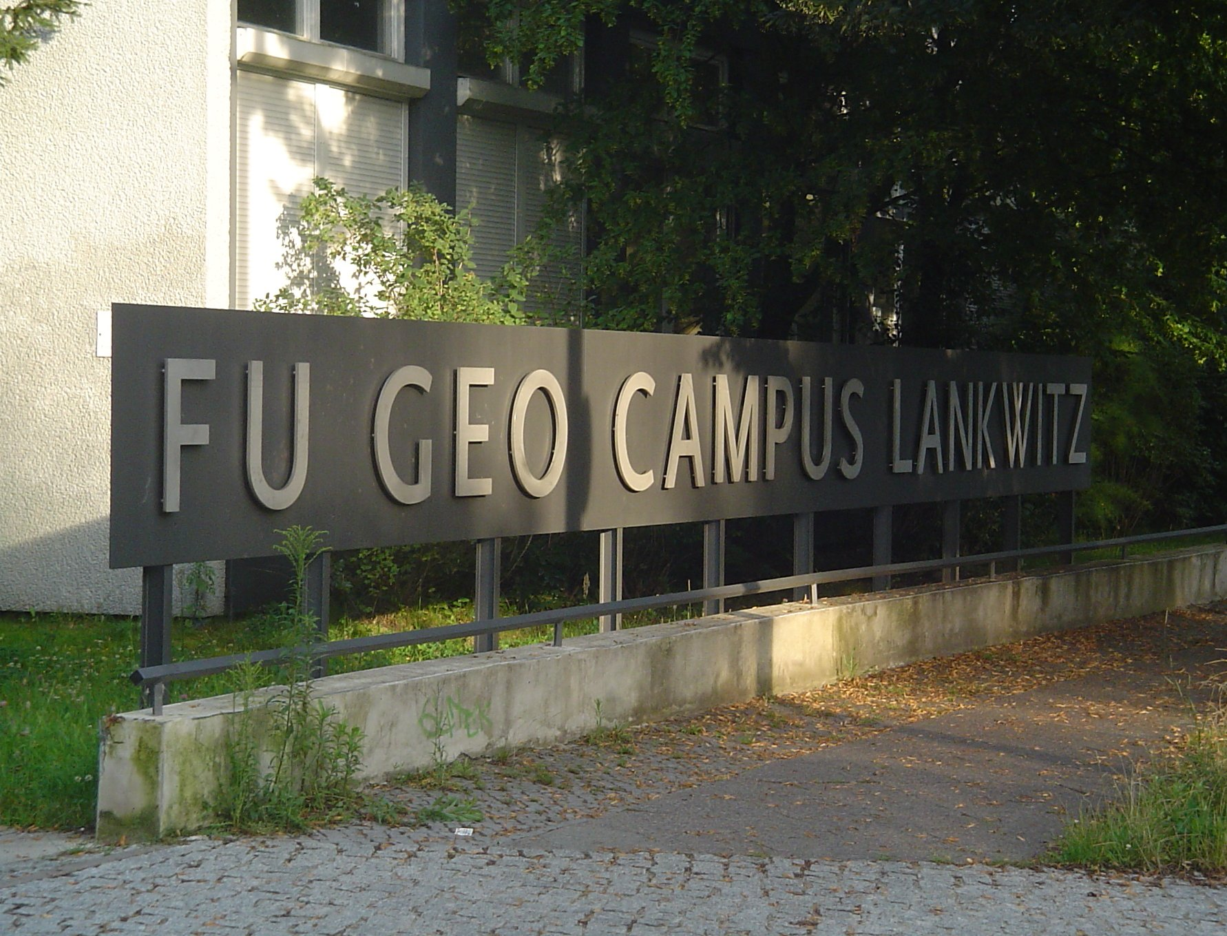 sign of "Freie Universität" (FU) on site in Berlin-Lankwitz, Germany